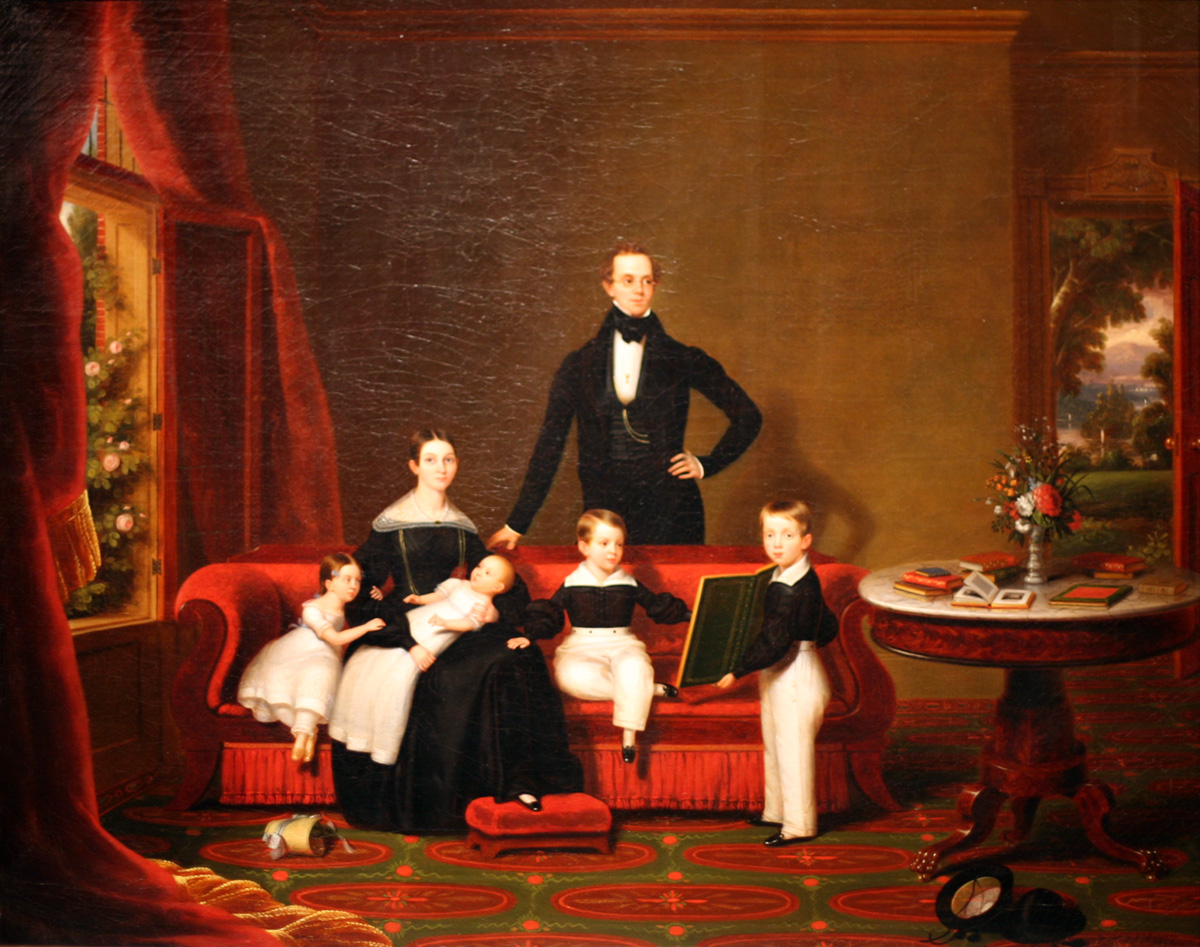 Family Group